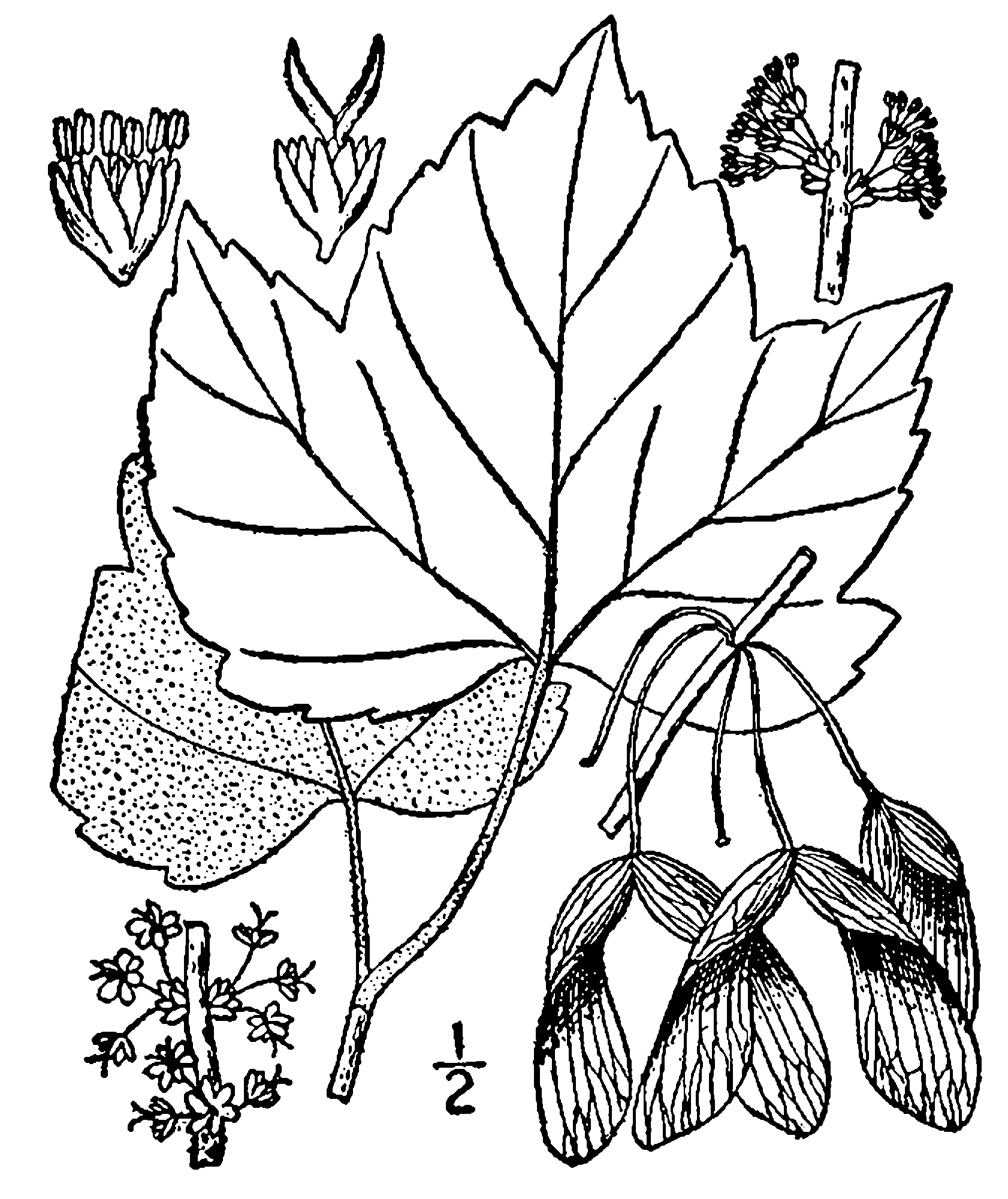 Drummond's Maple. Drawing.